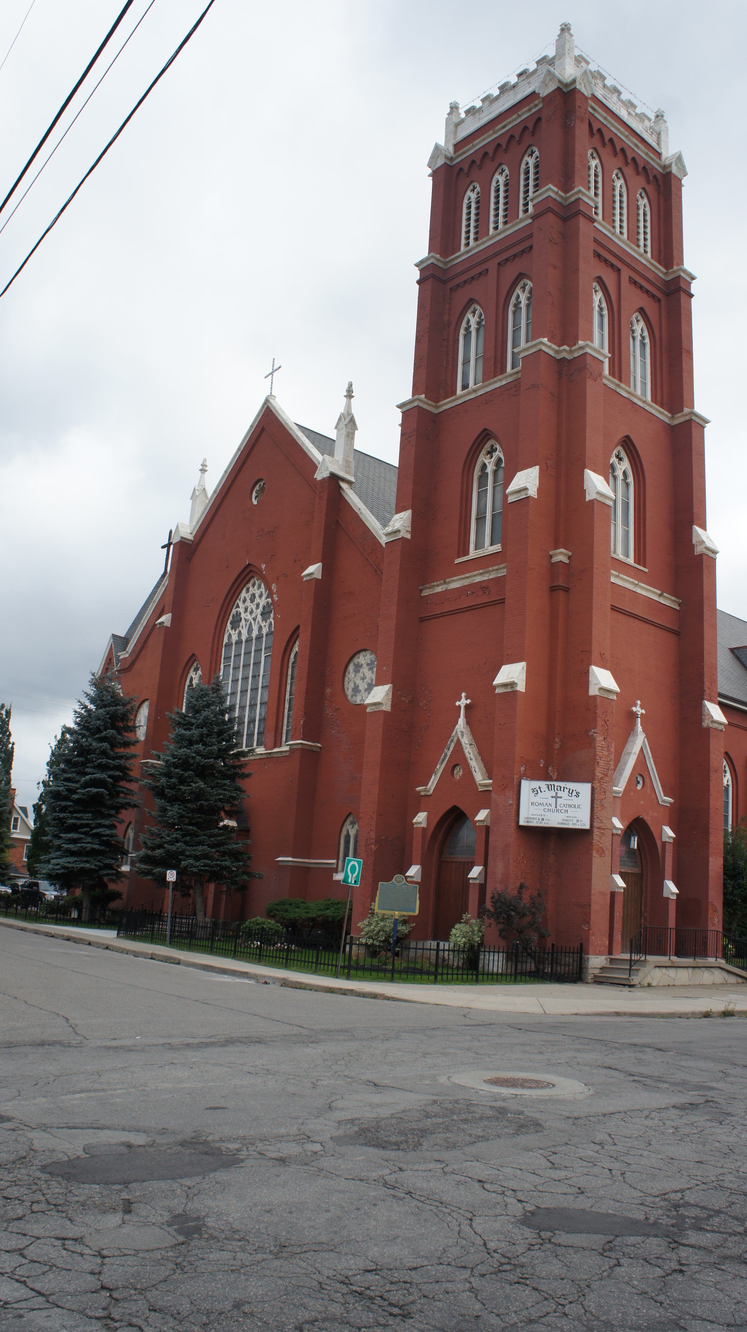 St Marys Pro-Cathedral Hamilton